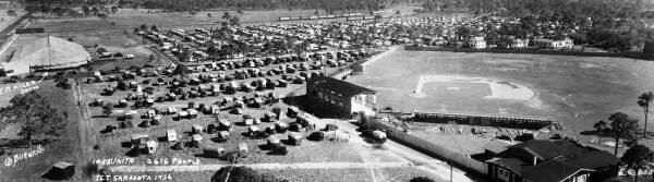 Local call number: N028614 Title: Tin Can Tourists convention at Payne Park: Sarasota, Florida Date: 1936 Photographer: Burnell Physical descrip: 1 photonegative - b&w - 4 x 5 in. Series Title: General collection Repository: 500 S. Bronough St., Tallahassee, FL 32399-0250 USA. Contact: 850.245.6700. Persistent URL: Visit Florida Memory to learn more about the founded in Tampa, Florida.